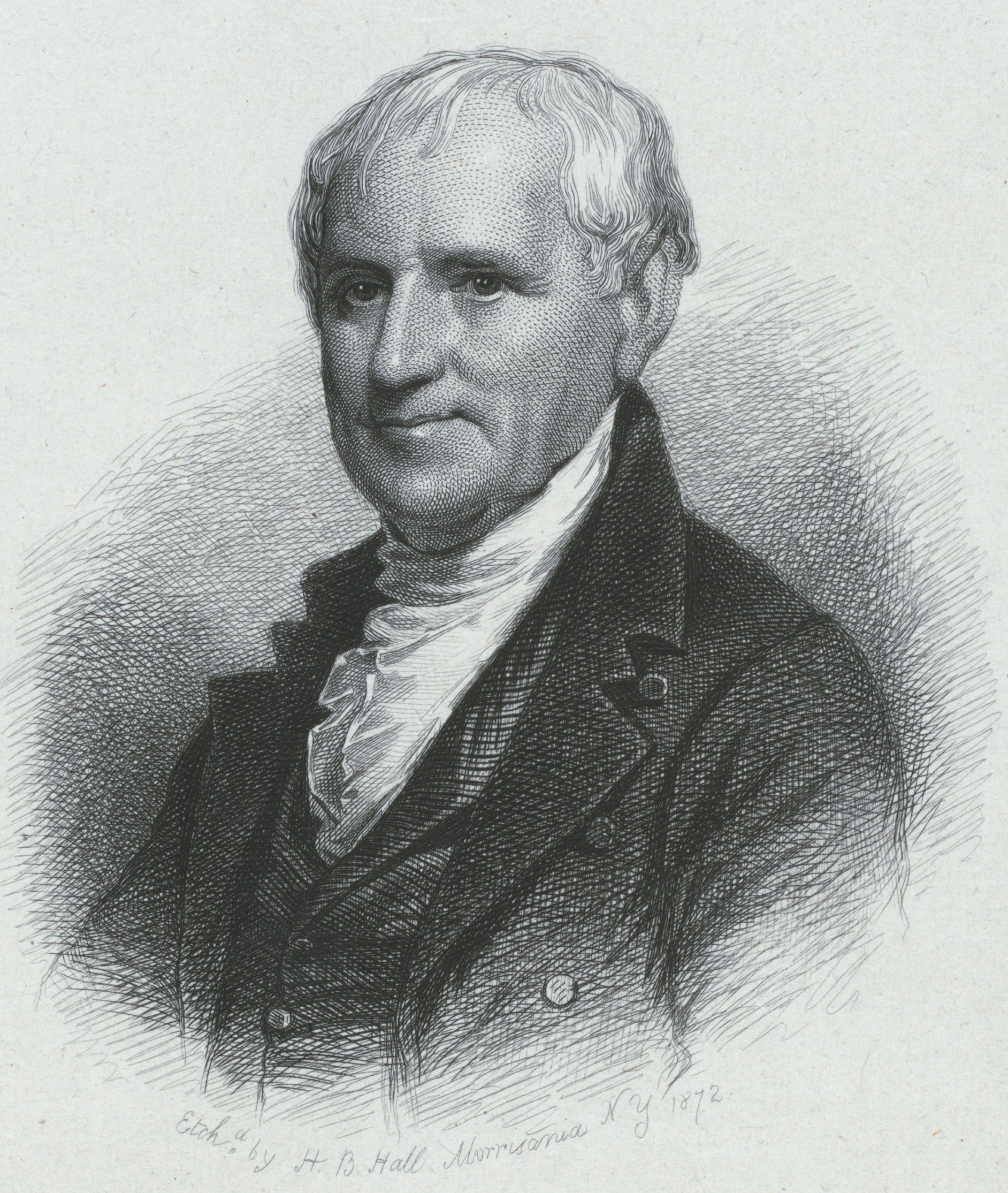 Illustrated by Thomas Addis Emmet, 1880. Volume 2 consists of pages 1-99 of the 1865, quarto, edition of the work, volume 3 of pages 99-213, volume 5 of pages 303-400. Citation/Reference: EM12437b